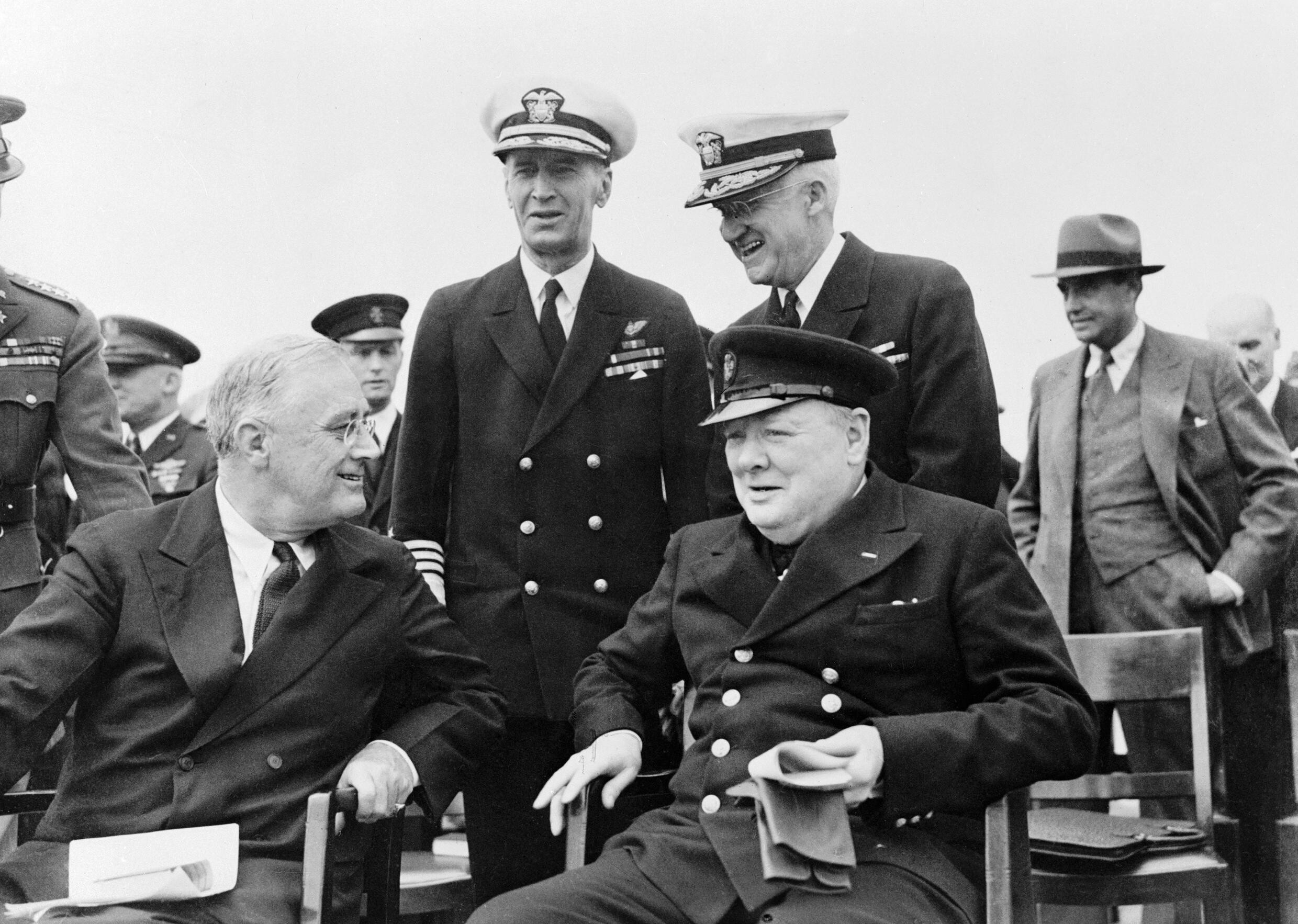 President Roosevelt and Winston Churchill seated on the quarterdeck of HMS PRINCE OF WALES for a Sunday service during the Atlantic Conference, 10 August 1941. President Franklin D Roosevelt and Prime Minister Winston Churchill after Divine Service on board HMS PRINCE OF WALES. Immediately behind them are Admiral E J King, USN and Admiral Stark, USN. This photograph was taken during a series of meetings between President Roosevelt and Prime Minister Churchill on board HMS PRINCE OF WALES and USS AUGUSTA in the North Atlantic off the coast of Newfoundland, 9 - 12 August 1941.